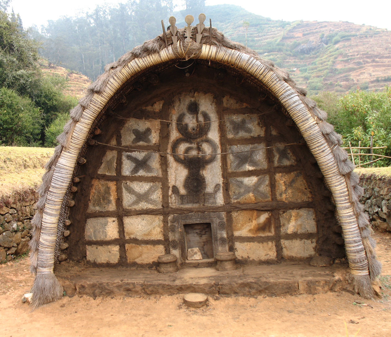 Toda Hut Ooty